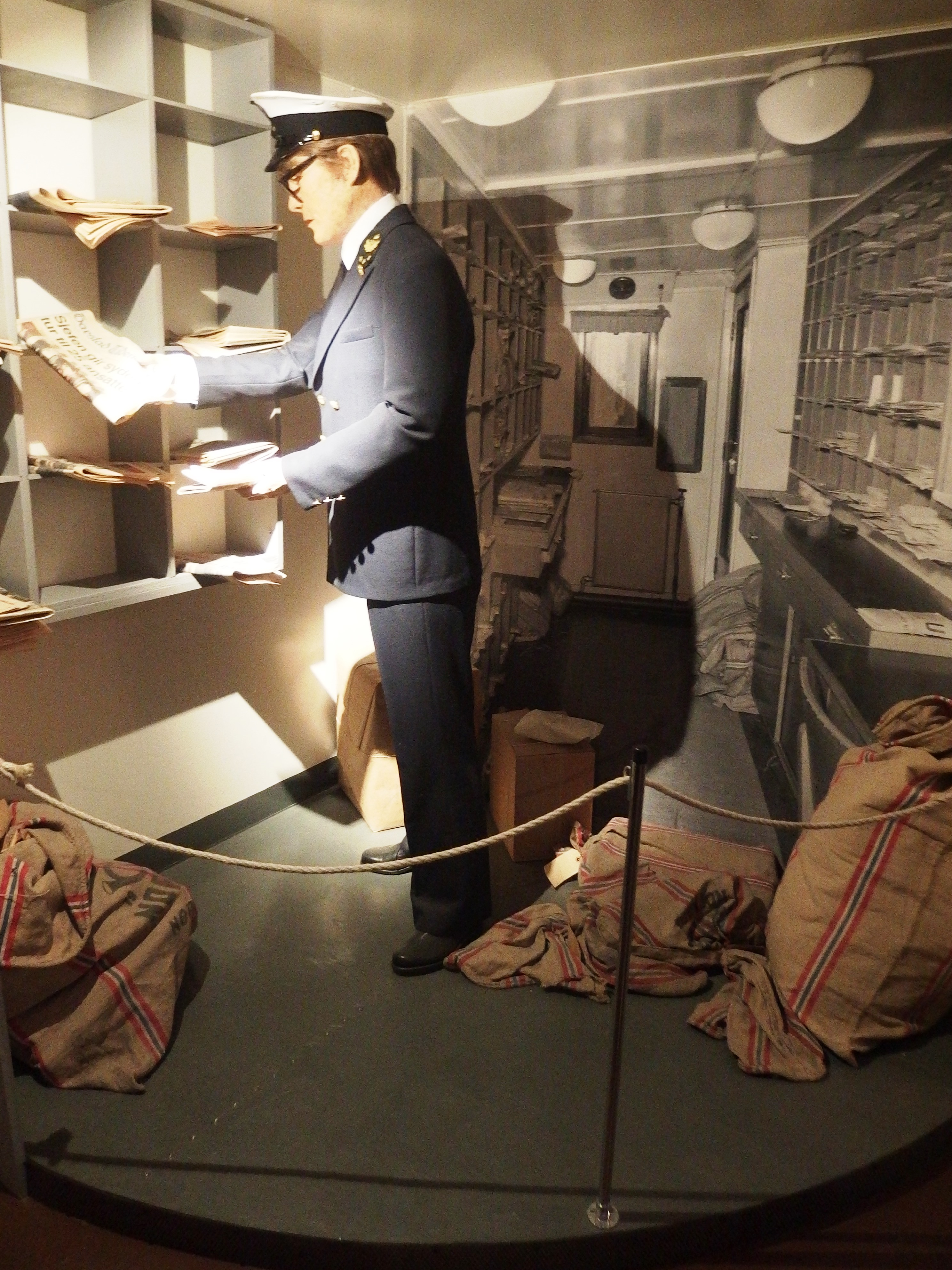 Lillehammer, Norway, Maihaugen open air museum. Norwegian Postal Museum.